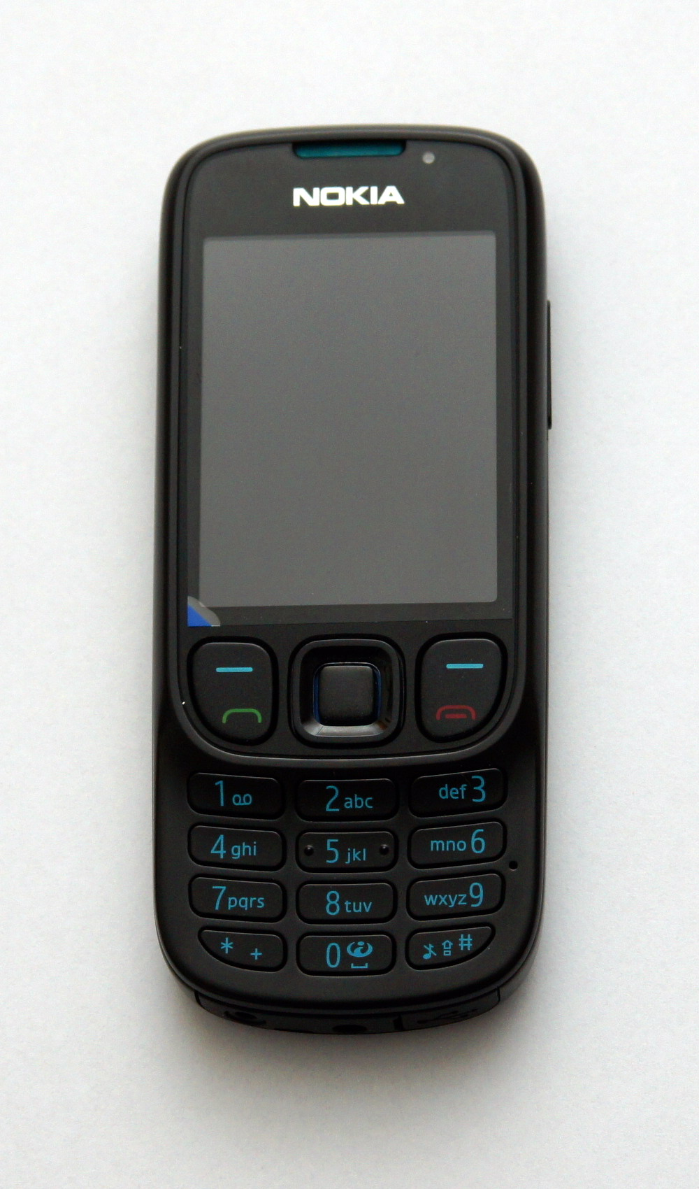 Nokia 6303i mobile phone.